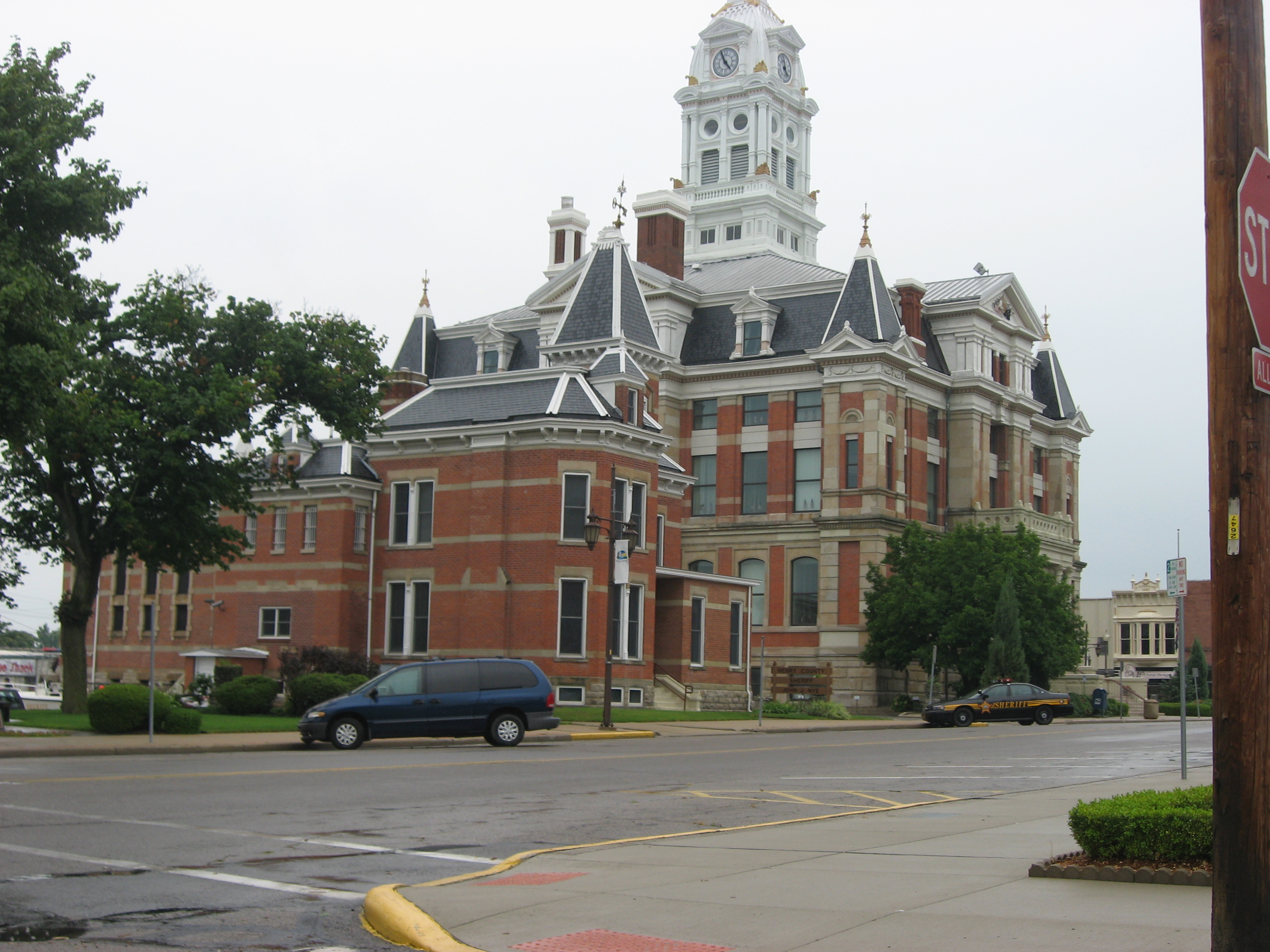 Front and side of the Henry County Sheriff's Residence and Jail, located at 123 E. Washington Street in downtown Napoleon, Ohio, United States. Built in 1882, it is listed on the National Register of Historic Places. Visible in the background is the adjacent Henry County Courthouse, which is also Register-listed.